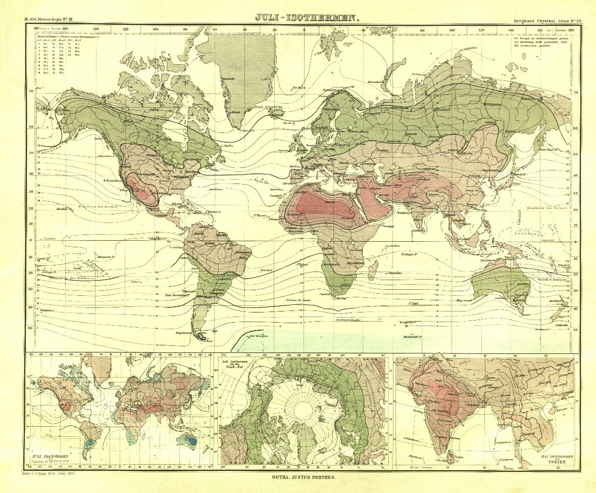 Atlas der Meteorologie, Gotha: Justus Perthes, 12 S., 12 Karten (pdf 11.3 MB) - No. III Juli-Isothermen